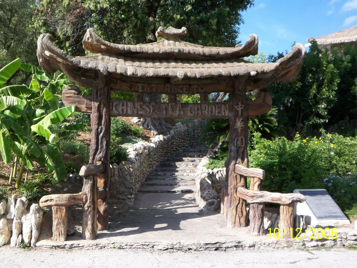 Japanese Tea Garden in San Antonio, Texas.